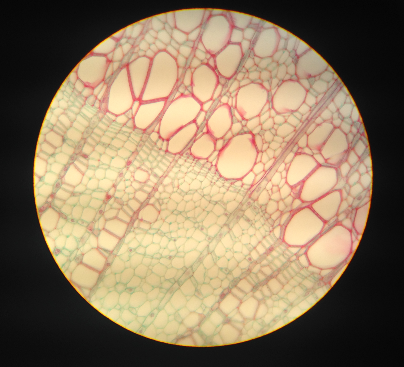 Cross section of 2 year old tilia americana under 40x magnification, featuring xylem rays